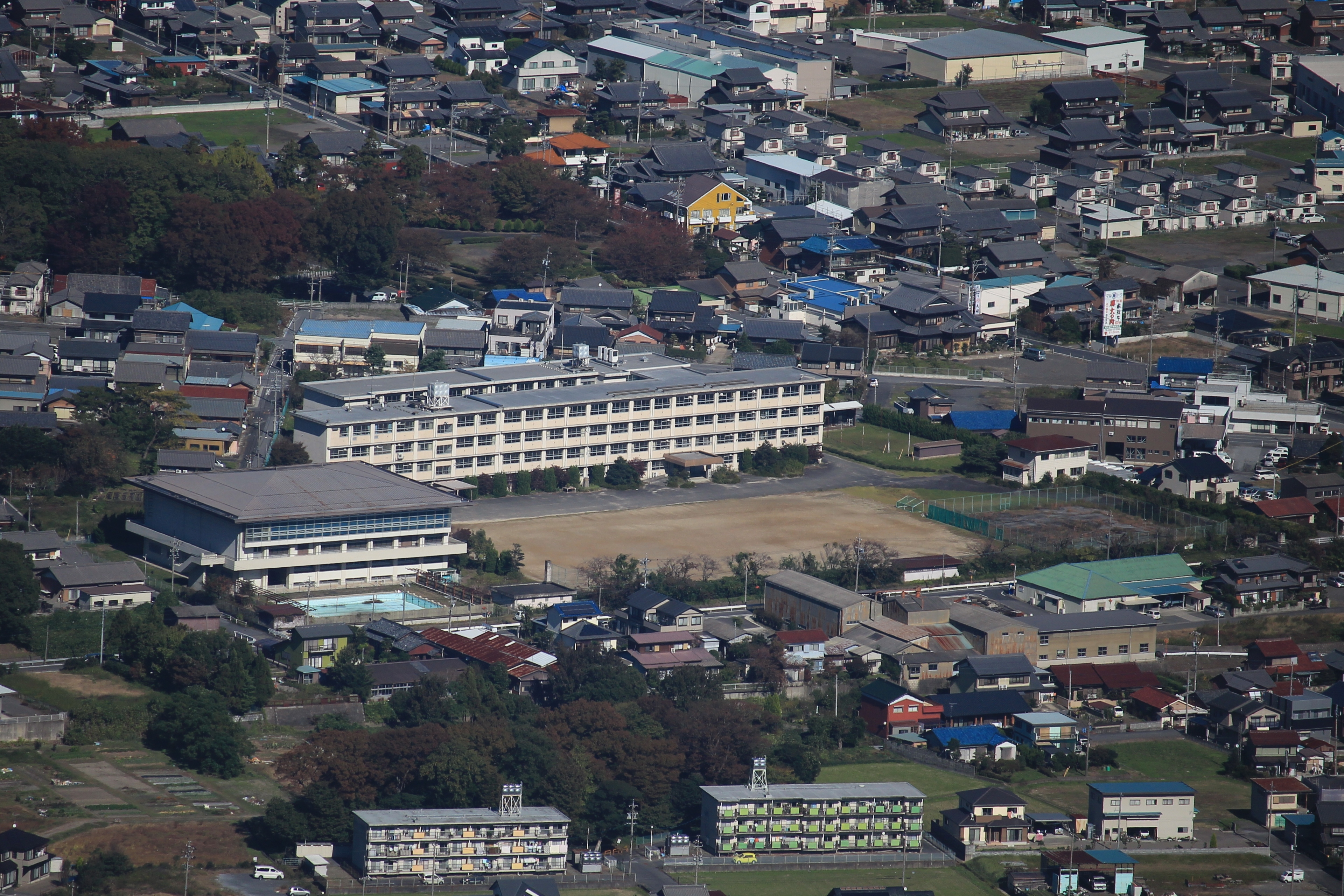 Yoro Girls' Commercial High School seen from Yōrō Mountains, in Yōrō, Gifu prefecture, Japan.